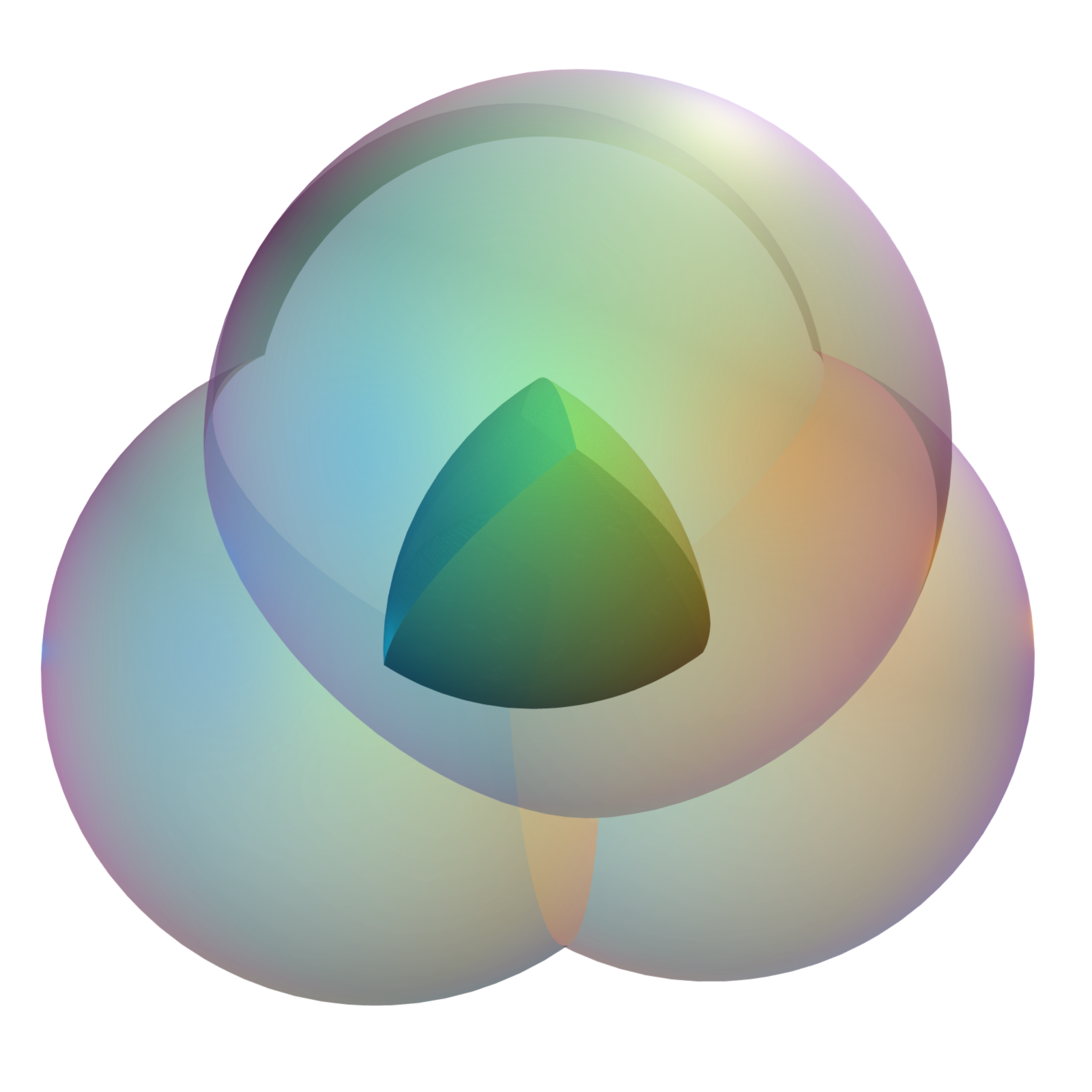 Illustrates a Reuleaux tetrahedron and the four spheres that make it up by intersection. Made in Blender.